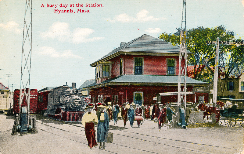 Postcard showing the railroad station in Hyannis, Massachusetts on Cape Cod.